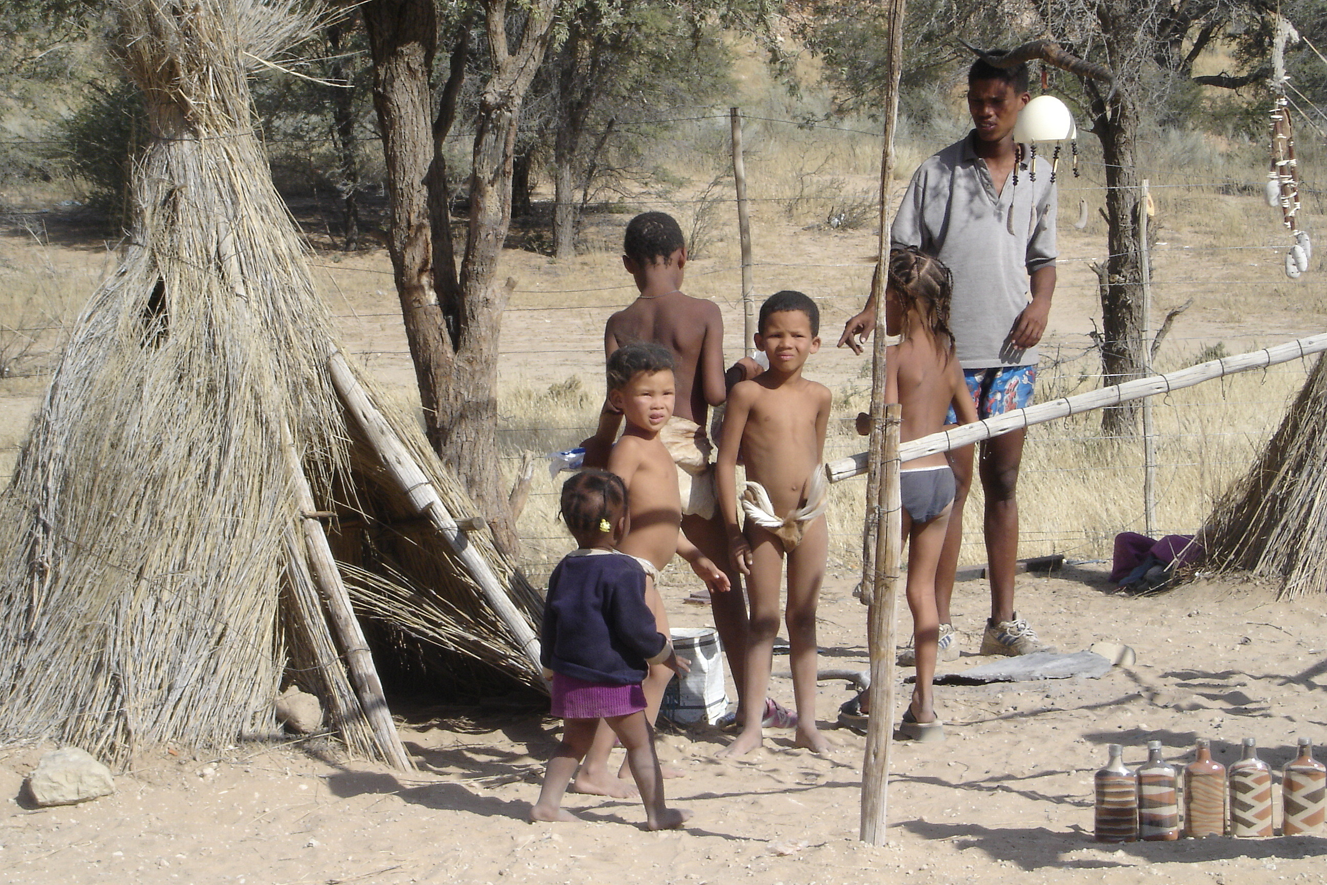 Photographer's description: As we drove back down that dusty road out of the Kalahari-gemsbok national park we stopped where there were five children standing on the side of the road in loin cloths screaming and dancing around. We stopped the car and gave them each an apple and a cookie and had a nice chat with their father, a bushman tracker. He told us how he came to be a tracker and he drew me a gorgeous picture. The children were adorable and enjoyed their treats and we soon headed on our way.